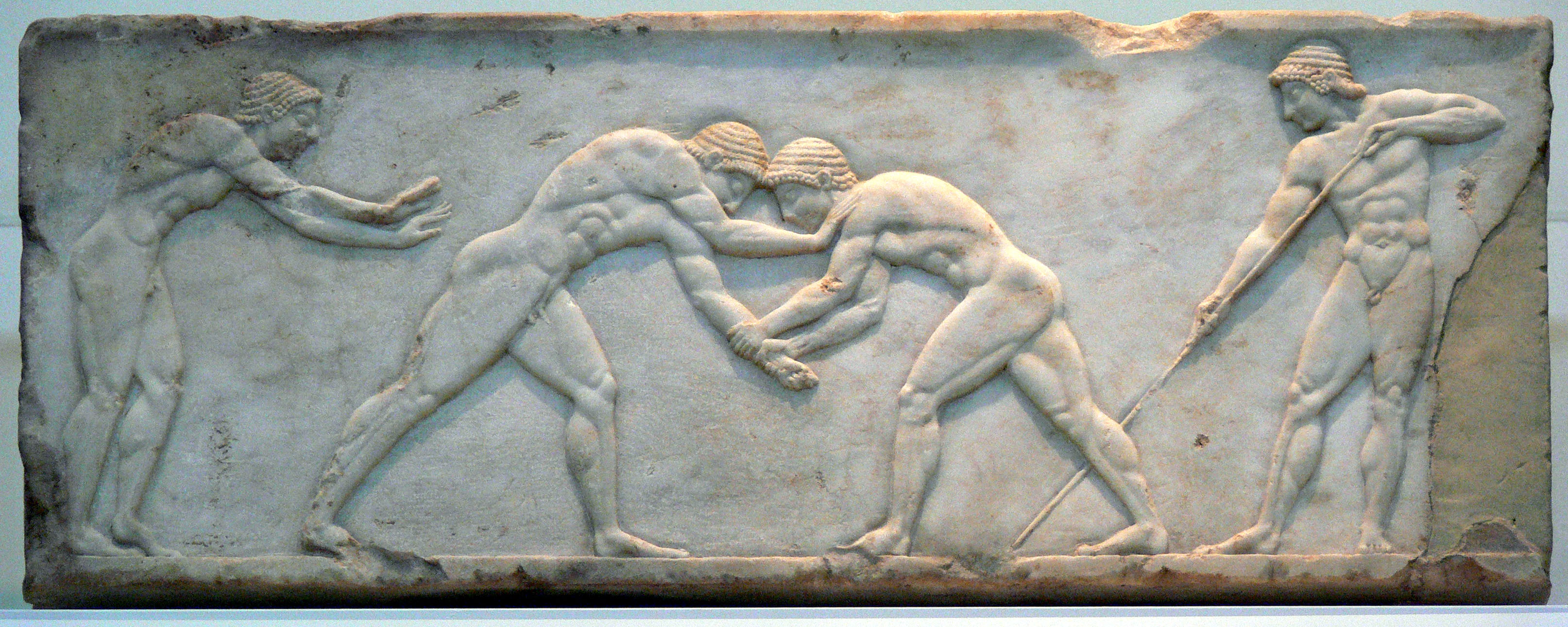 Base of a funerary kouros found in Athens, built into the Themistokleian wall. Three sides are decorated in relief: wrestlers are on the front side, an unspecified athletic game (known as "Ball Players") on the left side, a cat and dog fight scene on the right side. front view